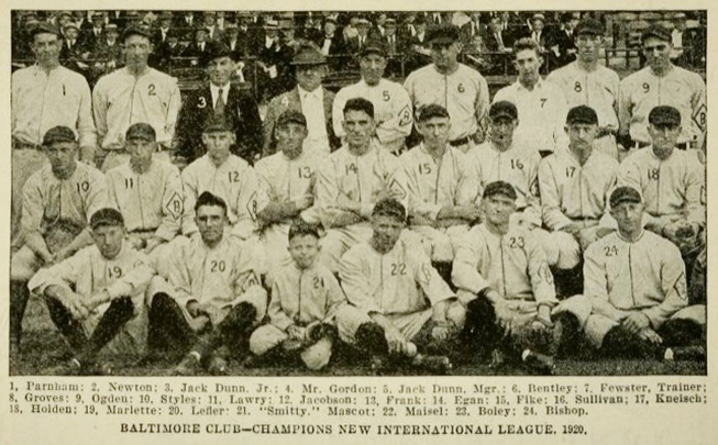 The 1920 Baltimore Orioles, a minor league baseball team from Baltimore, Maryland